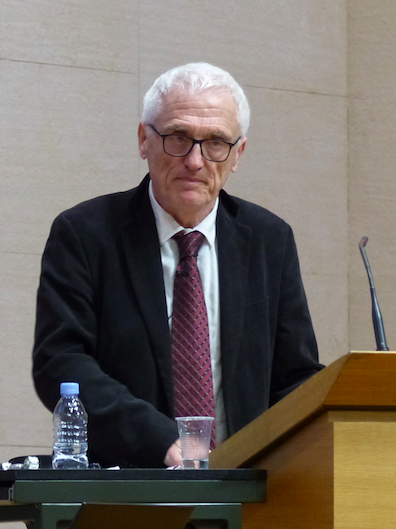 Jan Tomasz Gross, a Polish-American historian speaking at the Collège de France, February 21, 2019 – Conference : La nouvelle école polonaise d’histoire de la Shoah / New Polish School of the History of the Holocaust